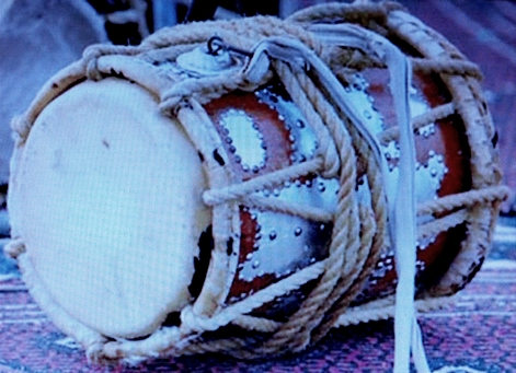 آلة إيقاعية تسمى المرواس.